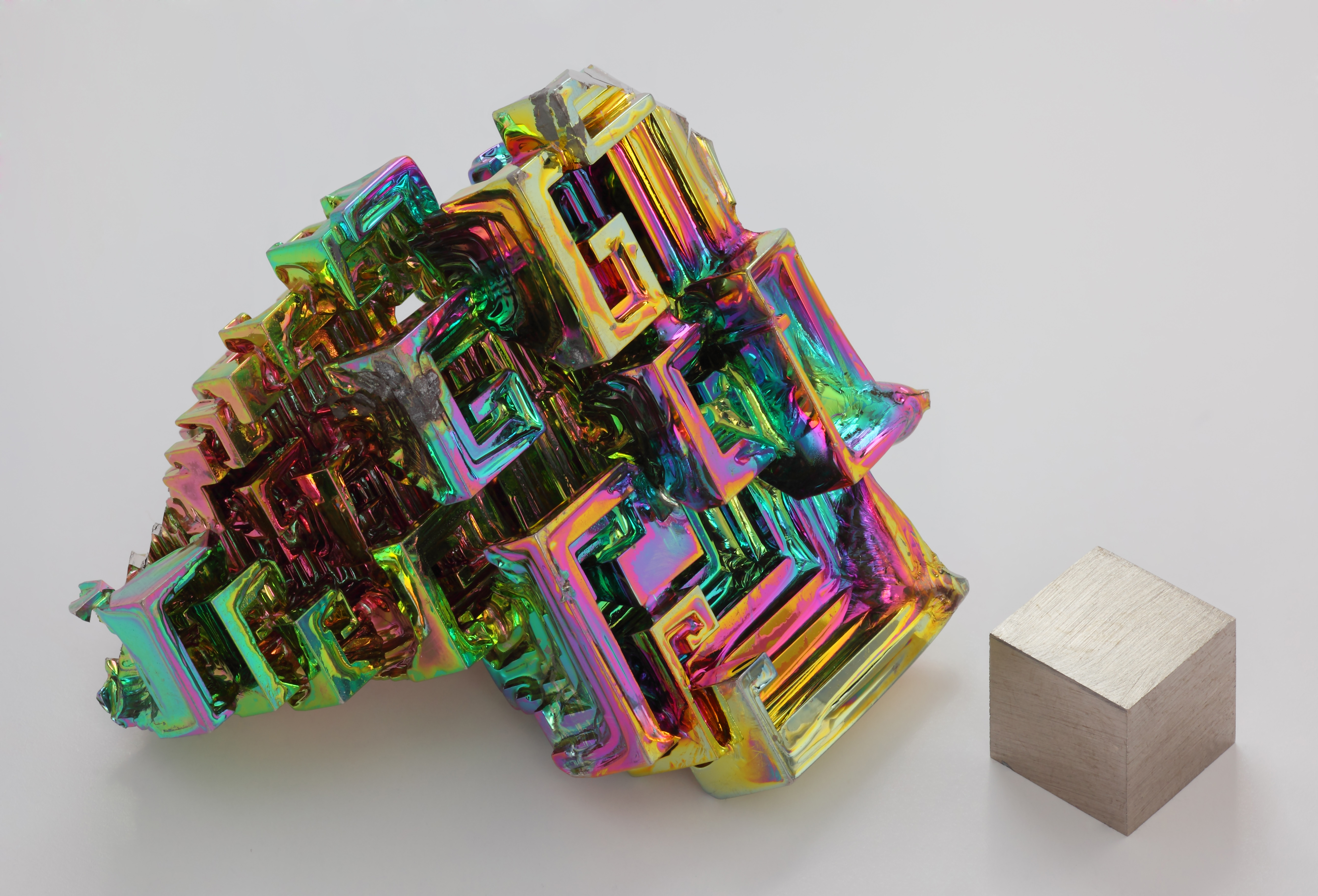 The chemical element bismuth as a synthetic made crystal. The iridescent surface is a very thin layer of oxidation. Beside it is a high purity (99.99 %) 1 cm3 bismuth cube for comparison.